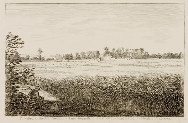 View from Hogarth's window of the house of his friend, John Ranby the surgeon, at Chiswick.